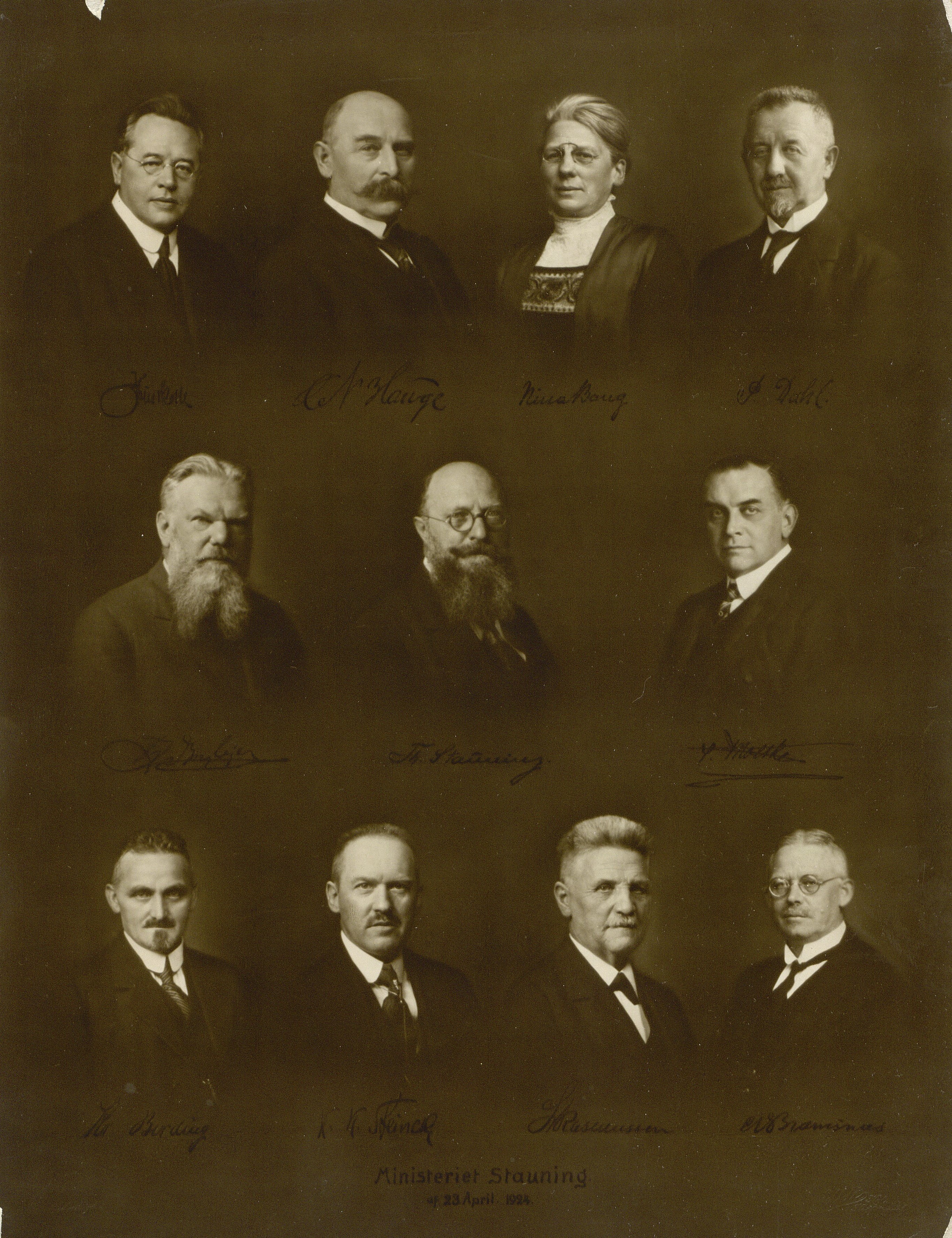 Stauning I cabinet, from 23 April 1924 to 14 December 1926.